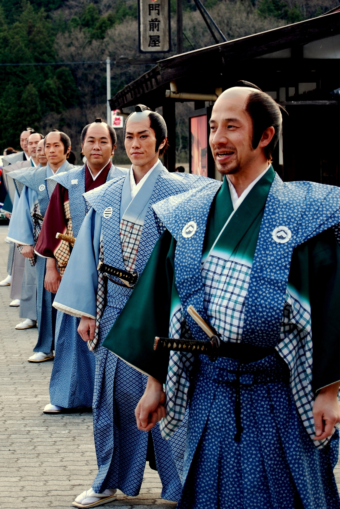 4pm Farewell Ceremony at Edo Wonderland, Nikko. @Edo Wonderland [Nikko Edomura]